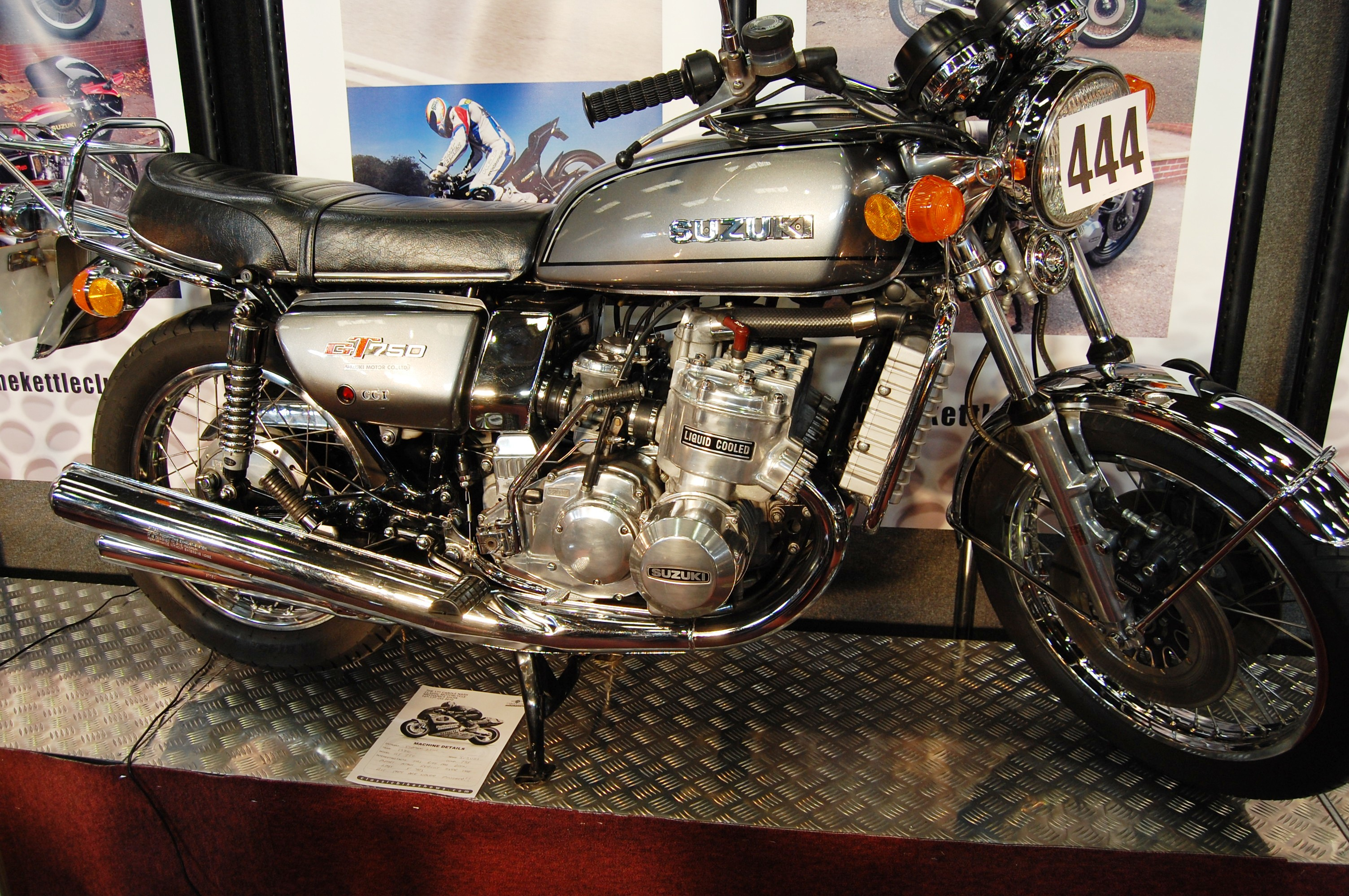 Classic triple water cooled two stroke from Suzuki. 750cc.